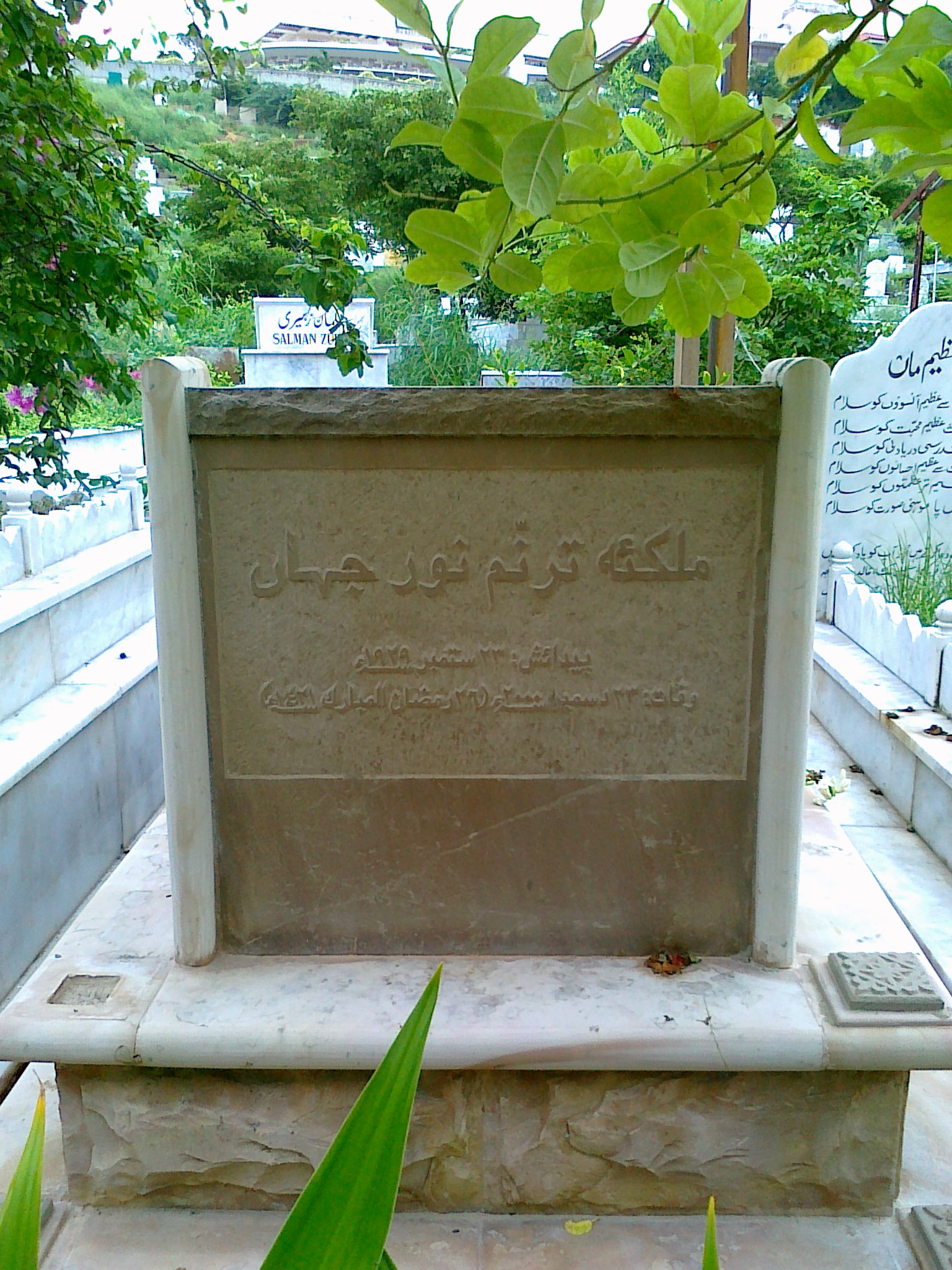 The back of the gravestone.of Melody Queen Noor Jehan